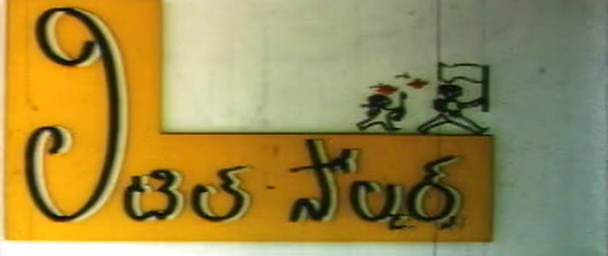 little soldiers movie image